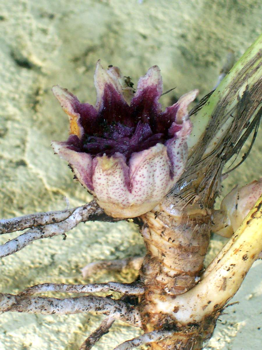 Aspidistra flower, accidentally pulled out of an Australian garden